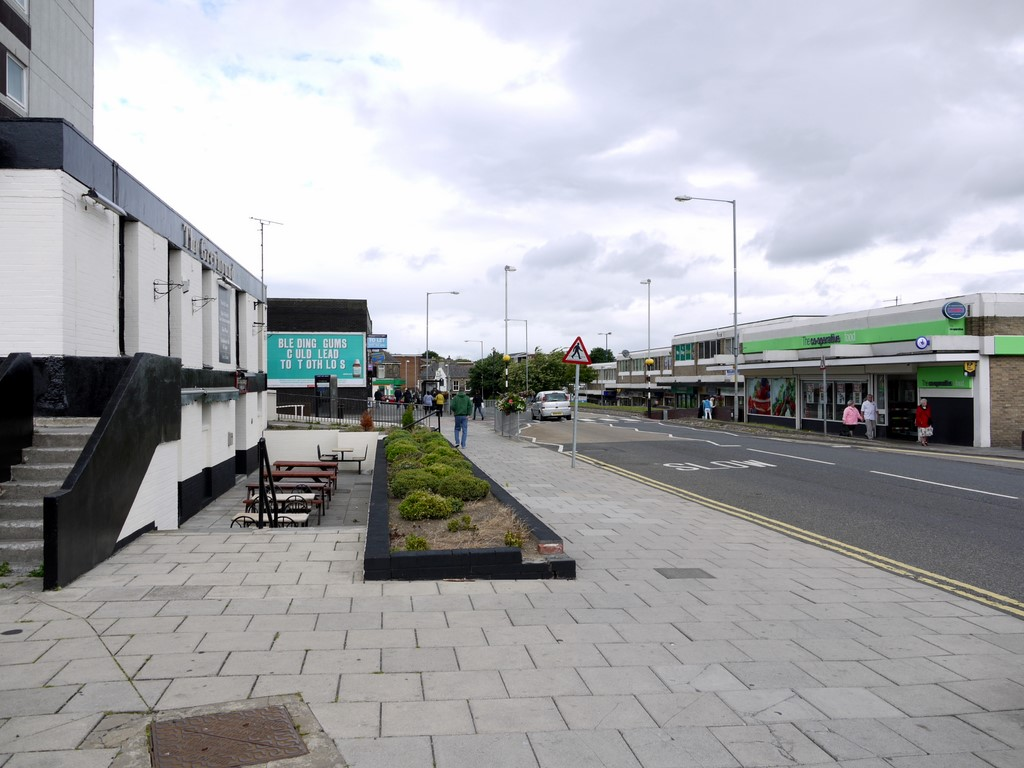 View along Felling Town Centre, Crowhall Lane, Felling